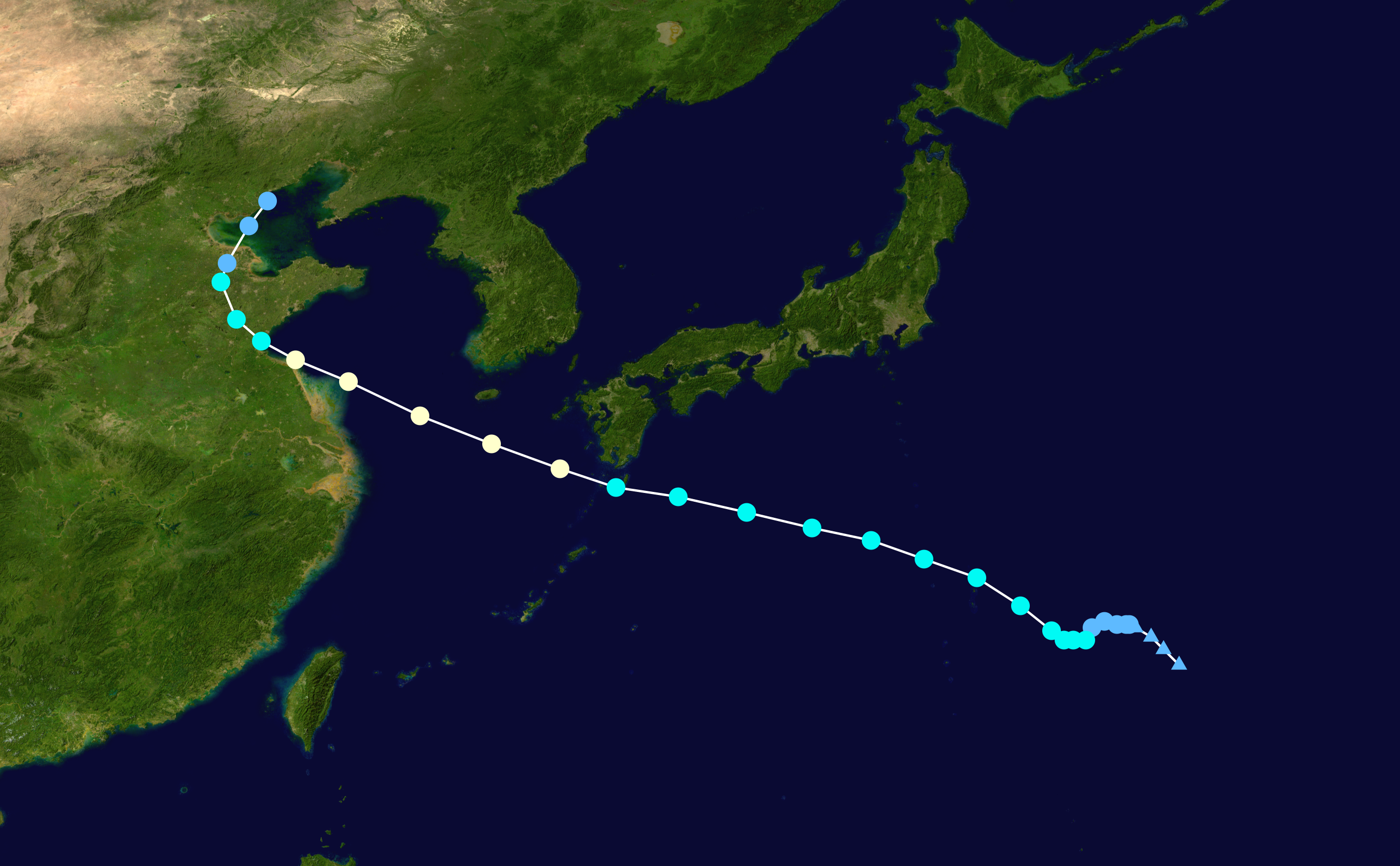 Track map of Typhoon Damrey of the 2012 Pacific typhoon season. The points show the location of the storm at 6-hour intervals. The colour represents the storm's maximum sustained wind speeds as classified in the Saffir–Simpson scale (see below), and the shape of the data points represent the nature of the storm, according to the legend below. Saffir–Simpson scale Tropical depression≤38 mph≤62 km/h Category 3111–129 mph178–208 km/h Tropical storm39–73 mph63–118 km/h Category 4130–156 mph209–251 km/h Category 174–95 mph119–153 km/h Category 5≥157 mph≥252 km/h Category 296–110 mph154–177 km/h Unknown Storm type Tropical cyclone Subtropical cyclone Extratropical cyclone / Remnant low / Tropical disturbance / Monsoon depression